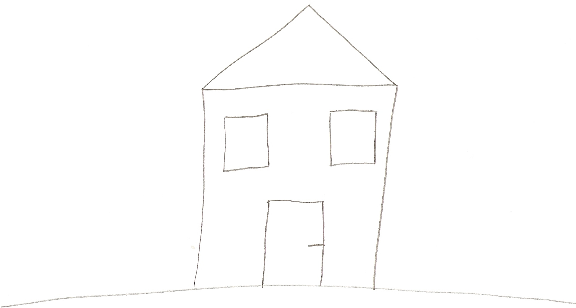 A house - illustration for House-Tree-Person Test